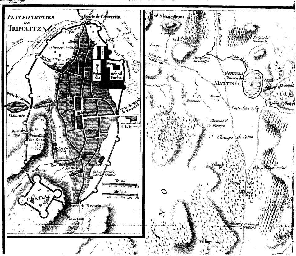 Tripolitza city in Ottoman Greece